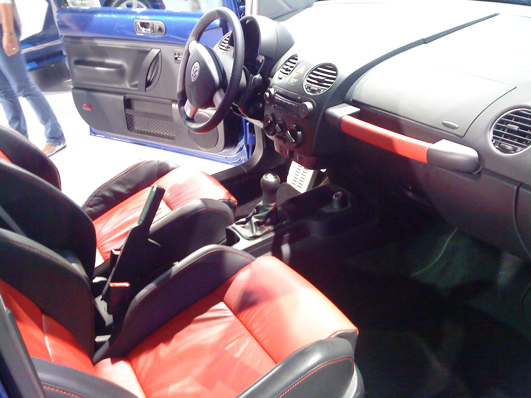 The Volkswagen New Beetle Hot Wheels Limited Edition at the 2008 SIAM.